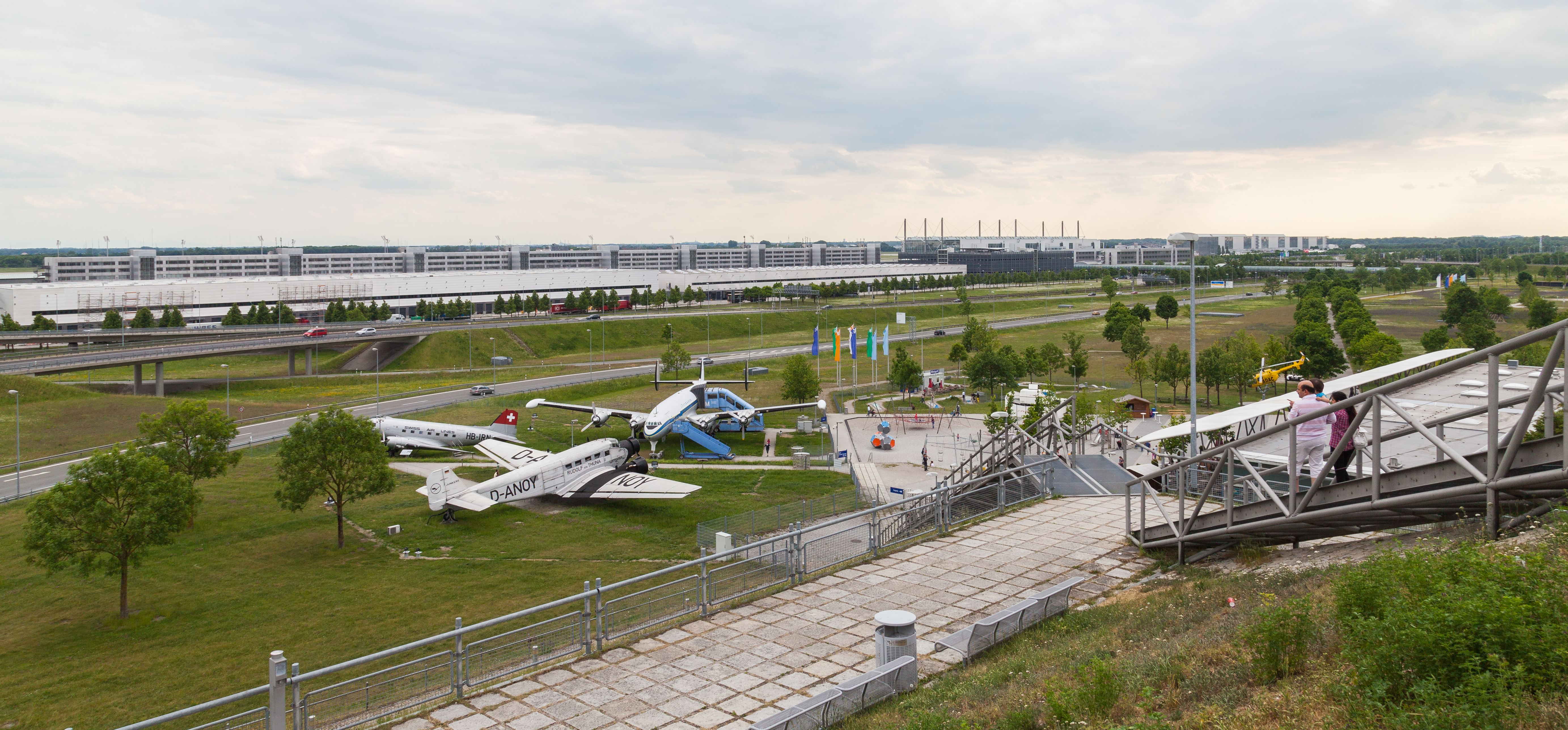 Munich Airport Visitors Park, Germany